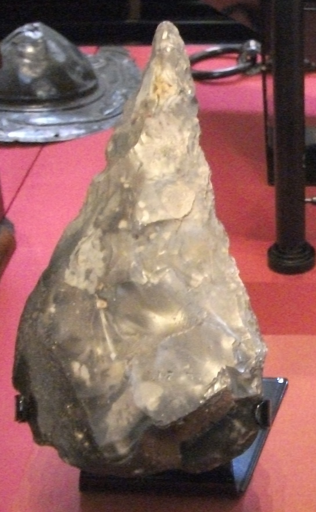 Hoxne & Grays Inn handaxes, [1] and [2]